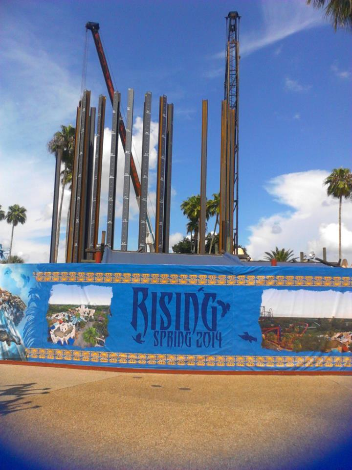 Construction of the Falcon's Fury drop tower at Busch Gardens Tampa in July 2013 Part 2.